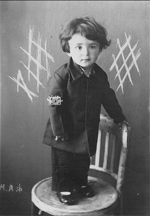 Gholam-Hossein Saedi (1936-1985), novelist and playwright.